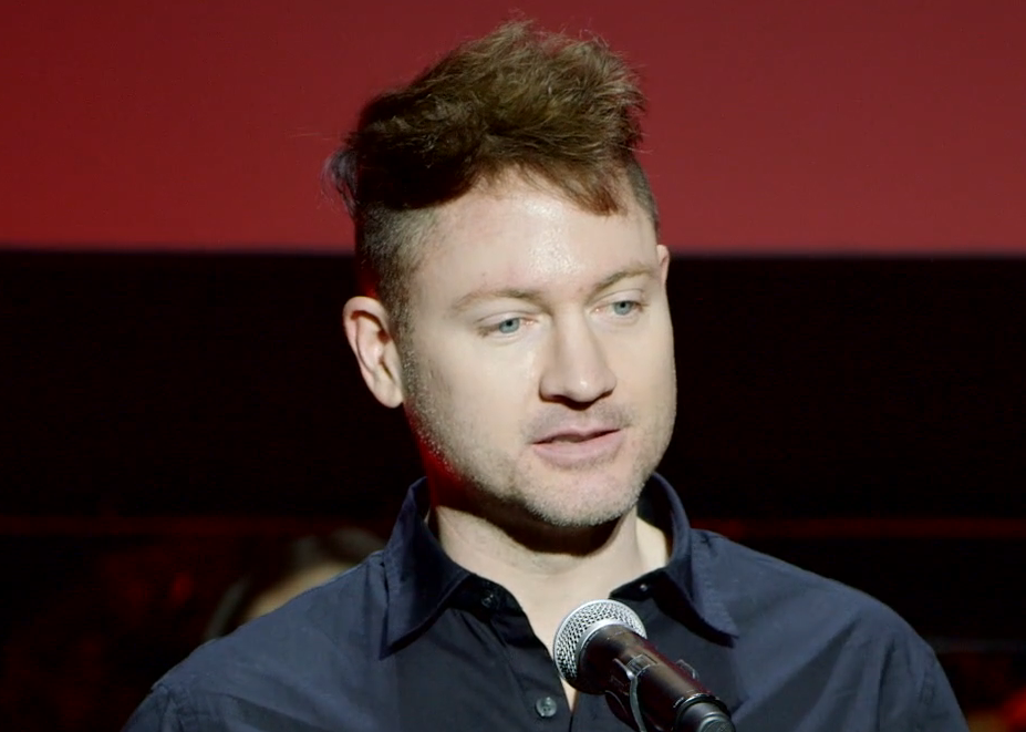 Bryan Johnson in 2017